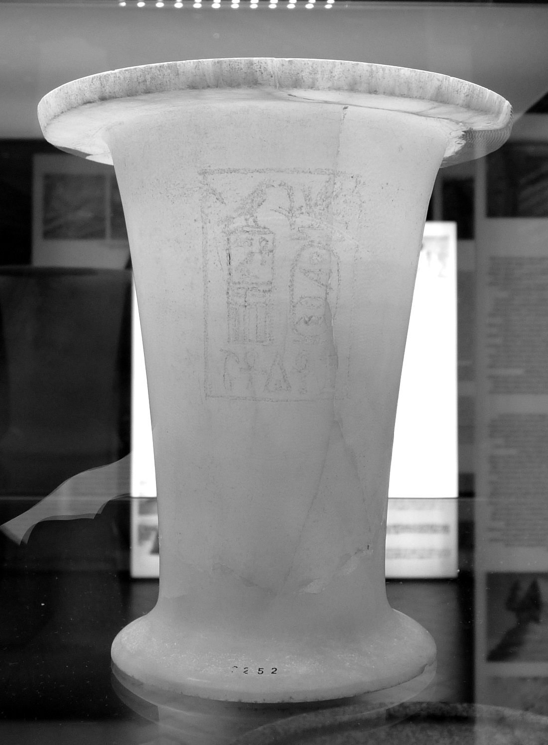 Ancient Egyptian stone vessel with the Horus name and praenomen of king Merenre Nemtyemsaf I (see note). Calcite alabaster, unknown provenience, 6th dynasty, Old Kingdom. Florence, Museo archeologico nazionale, Room 1, Inv. n. 3252. [The picture was desaturated for technical reasons]